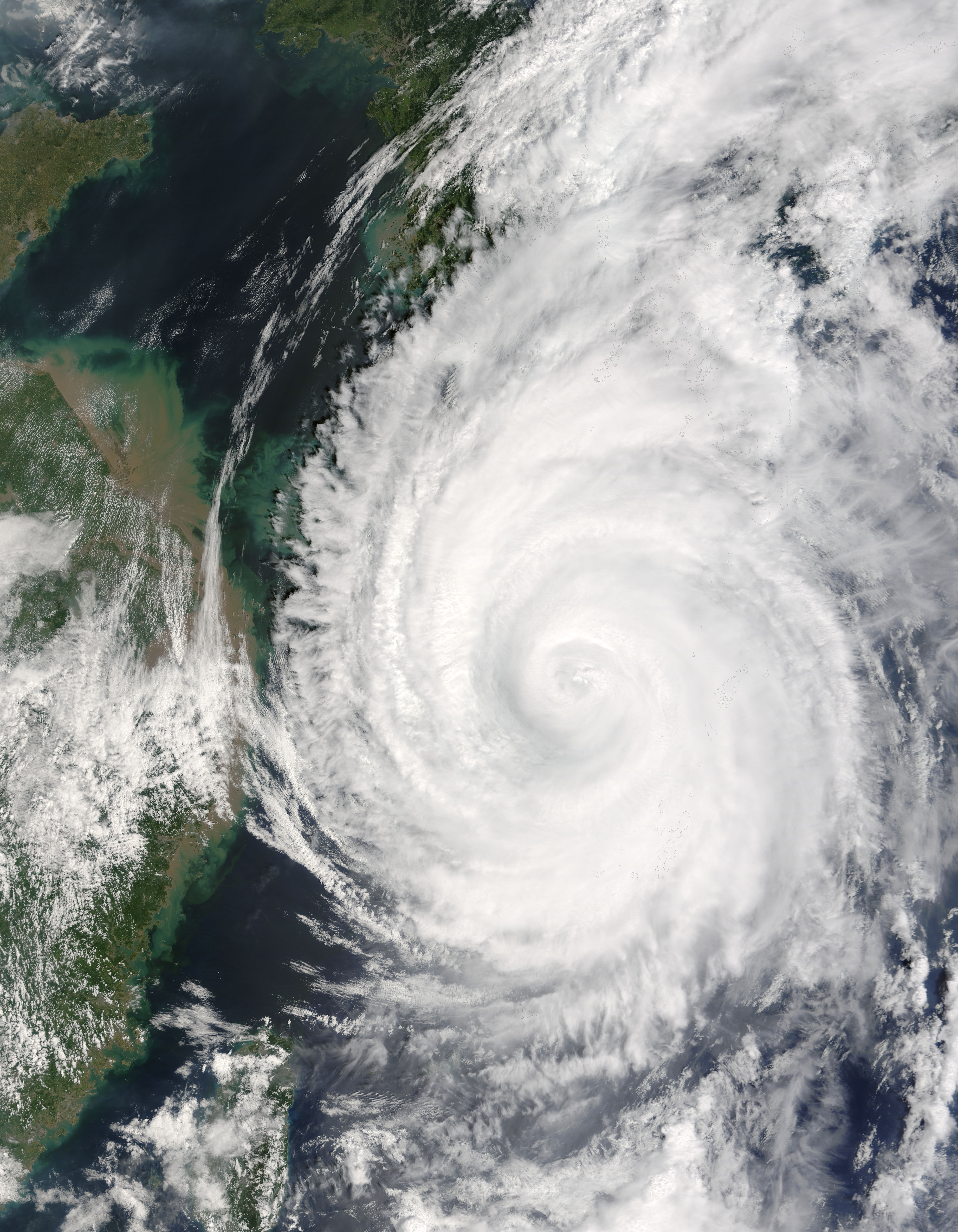 Typhoon Songda The MODIS instrument aboard NASA's Terra satellite captured this true-color image of Typhoon Songda on September 6, 2004 at 2:35 UTC. At the time this image was taken Songda was located approximately 528 km (328 miles) south-southeast of Sasebo, Japan and was moving towards the north-northwest at 13 km/hr (8 mph). Maximum sustained winds were near 185 km/hr (115 mph) with gusts to 232 km/hr (144 mph). The MODIS Rapid Response System provides this image at additional resolutions and formats. NASA image courtesy Jacques Descloitres, MODIS Land Rapid Response Team at NASA GSFC.